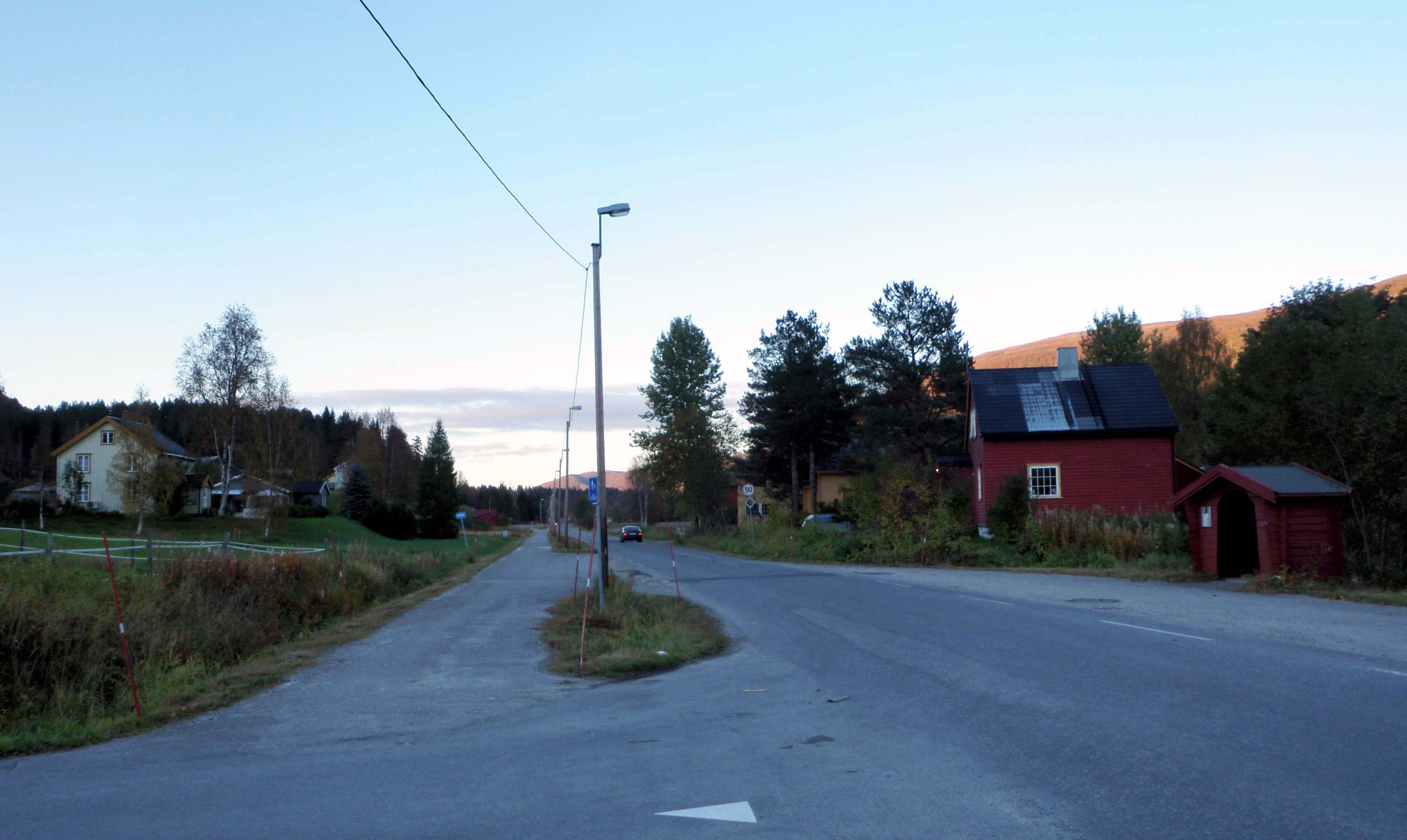 Road junction in the village of Røkland in Saltdal, Nordland, Norway.